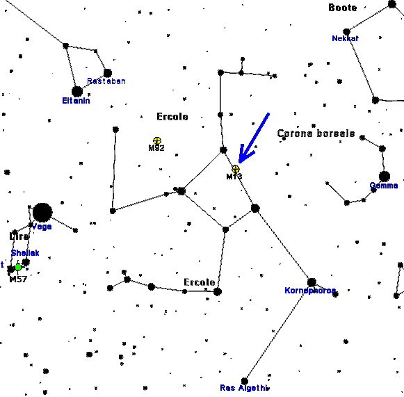 M13